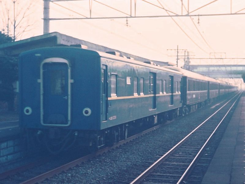 East Japan Railway Mani 50 2236 "ORIENT EXPRESS '88" At Shinmachi Sta.